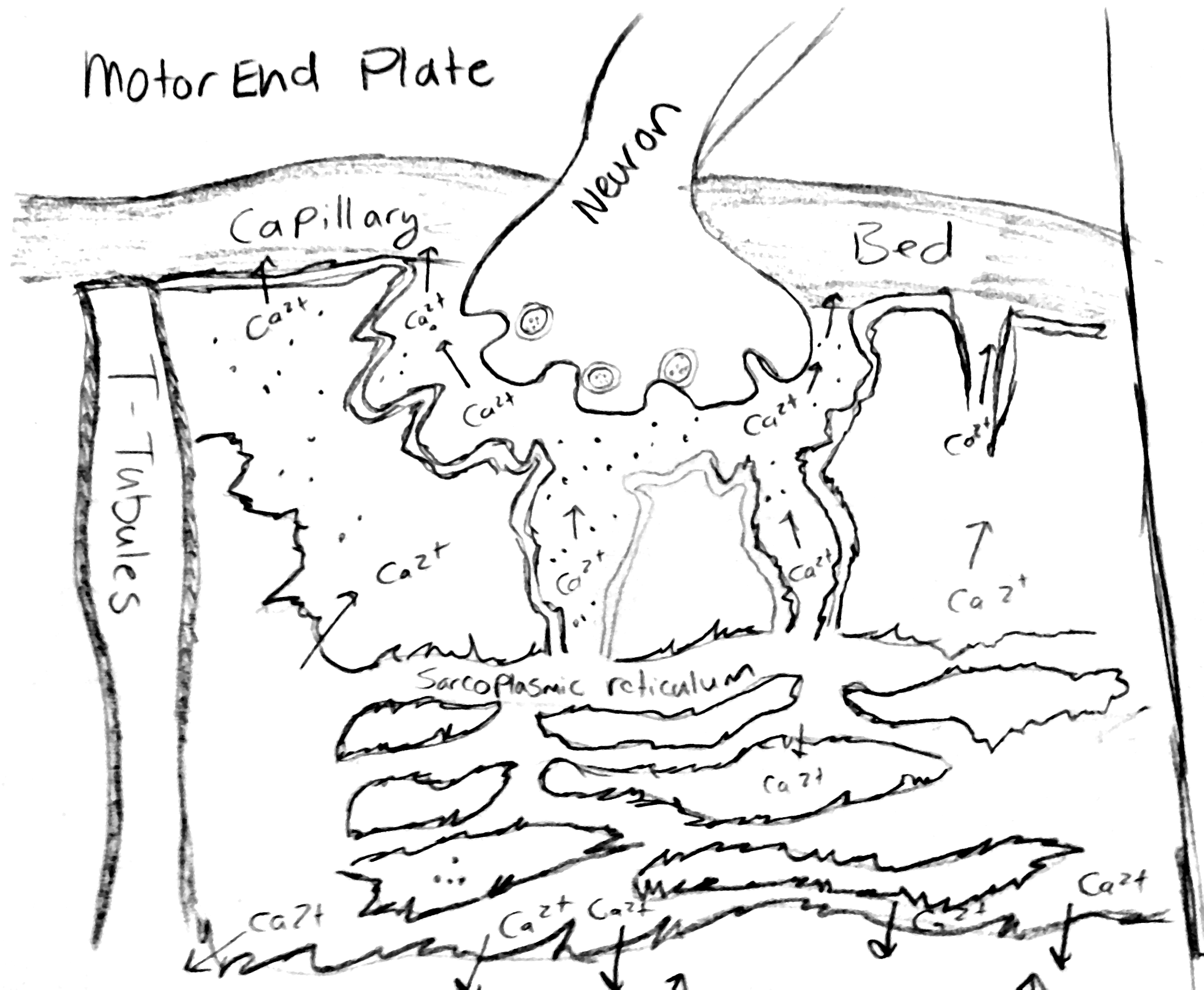 Motor end plate of a person with rhabdomyolsis. (Tidied-up version of original image).